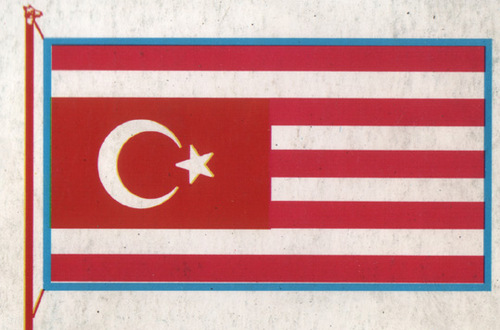 Turkestan Flag